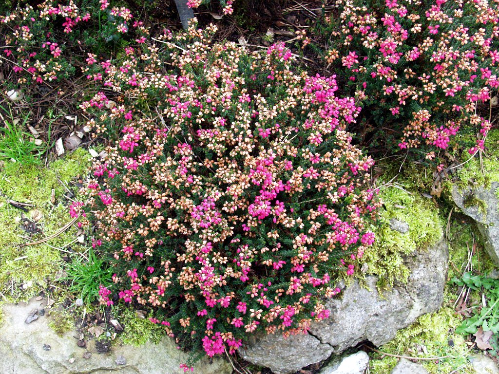 Erica cinerea at Botanischen Garten Duisburg-Hamborn, Germany